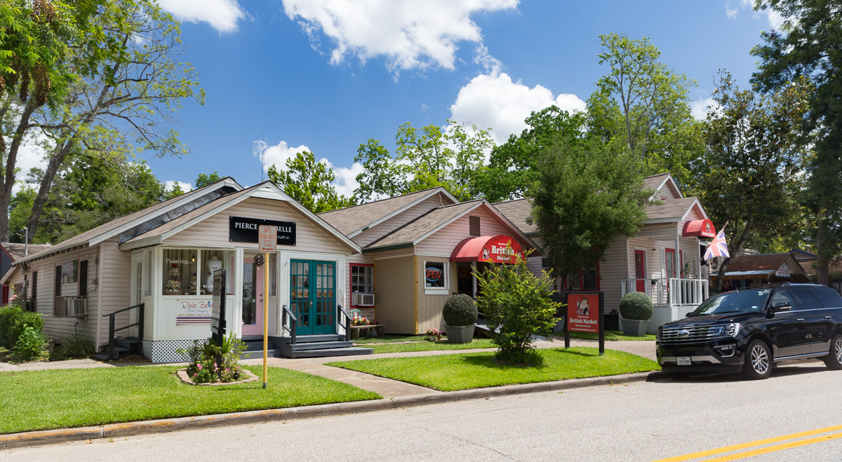 Businesses in Spring, Texas